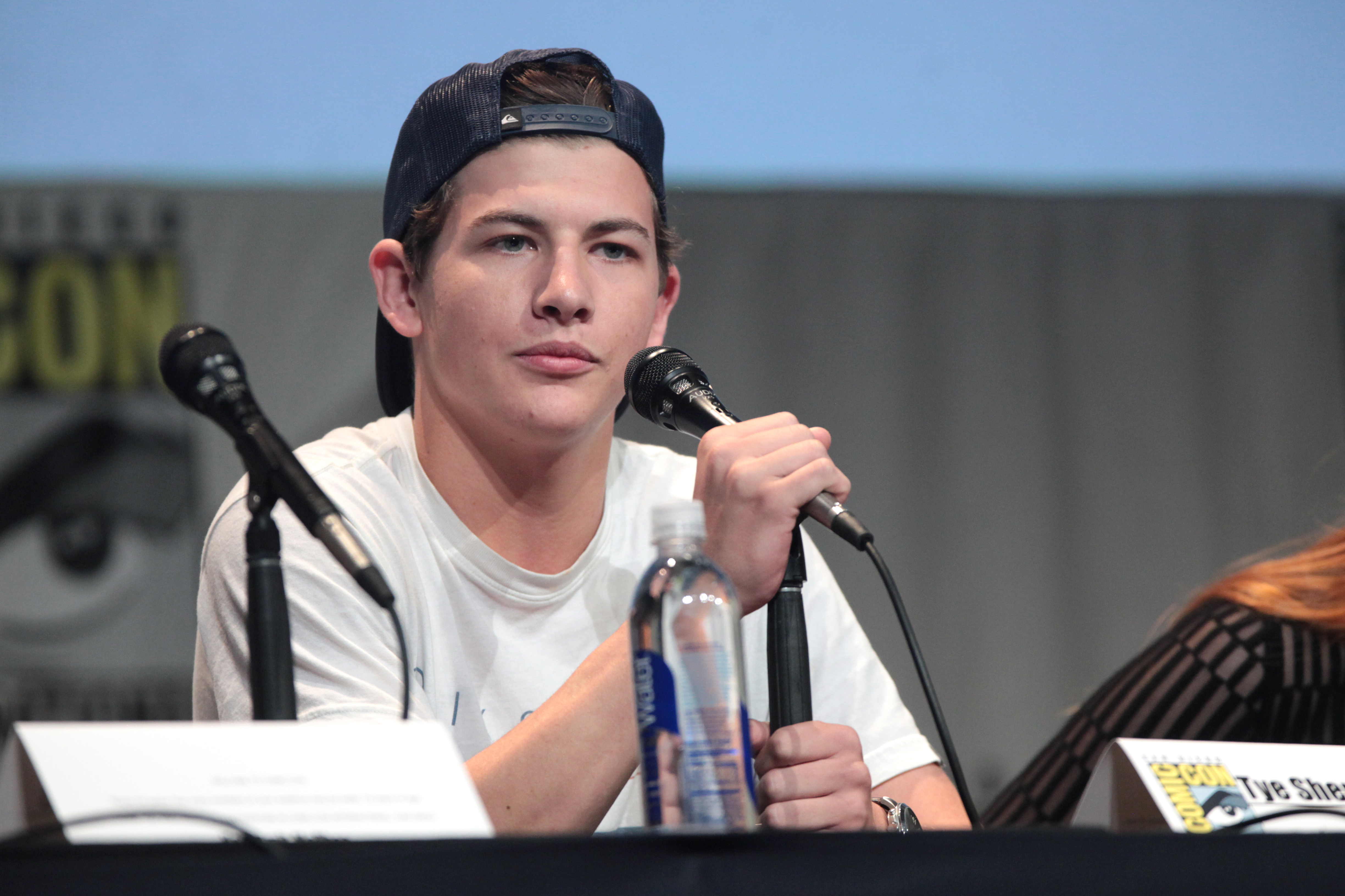 Tye Sheridan speaking at the 2015 San Diego Comic Con International, for "X-Men: Apocalypse", at the San Diego Convention Center in San Diego, California.